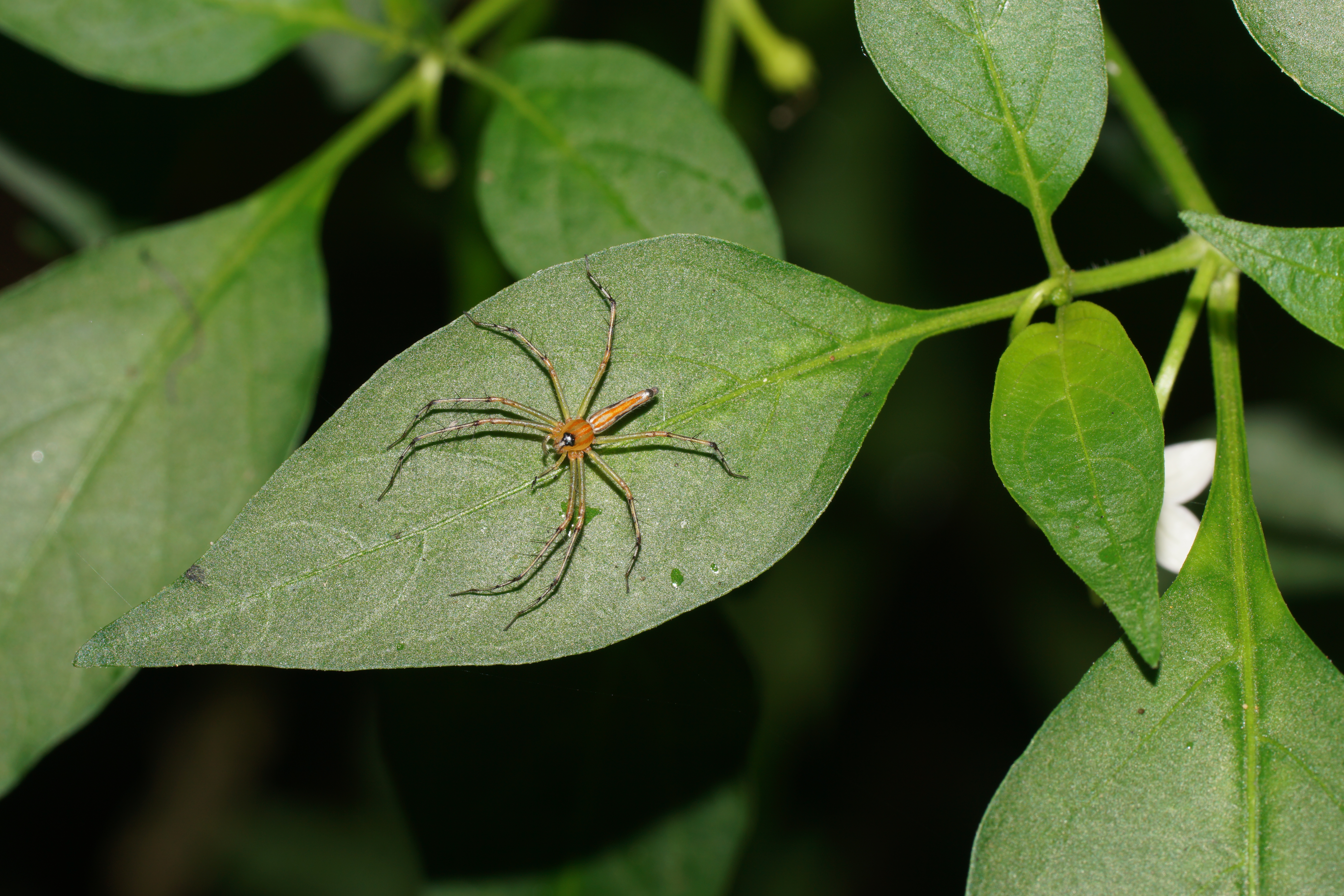 spider